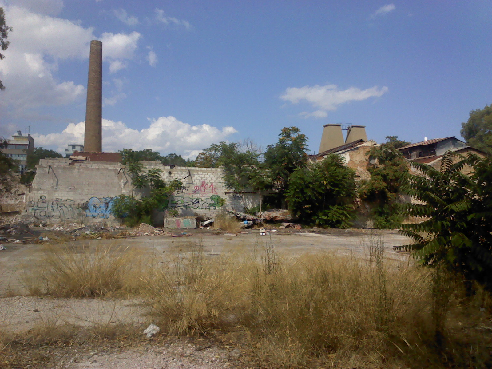 Factory Retsina Pireas